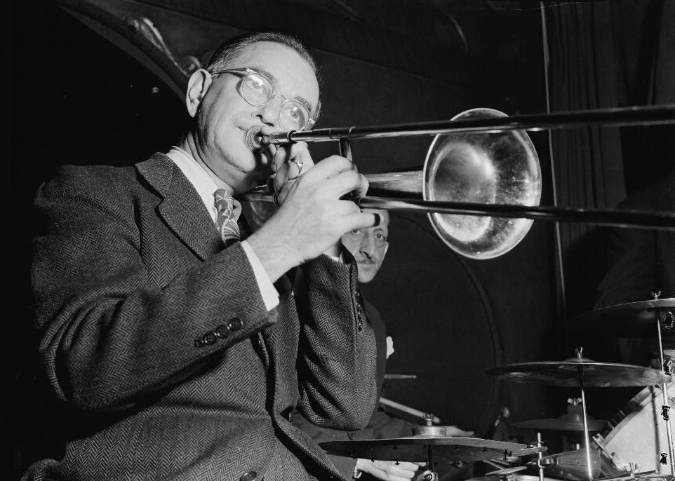 Miff Mole (1898-1961), pioneering American jazz trombonist, playing at Nick's Tavern, New York City.